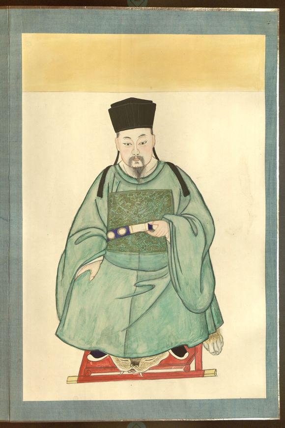 Mu Qing, a local commander of Lijiang